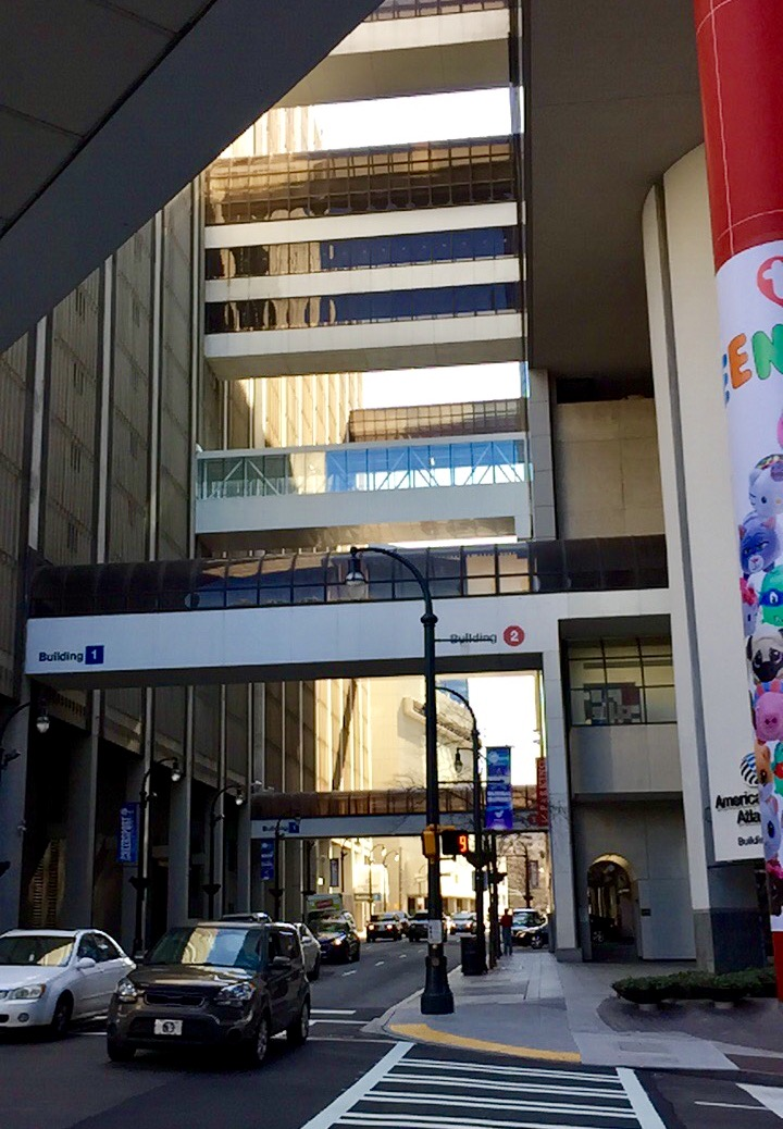 Street-level facade of AmericasMart trade center in Atlanta, Georgia, US.